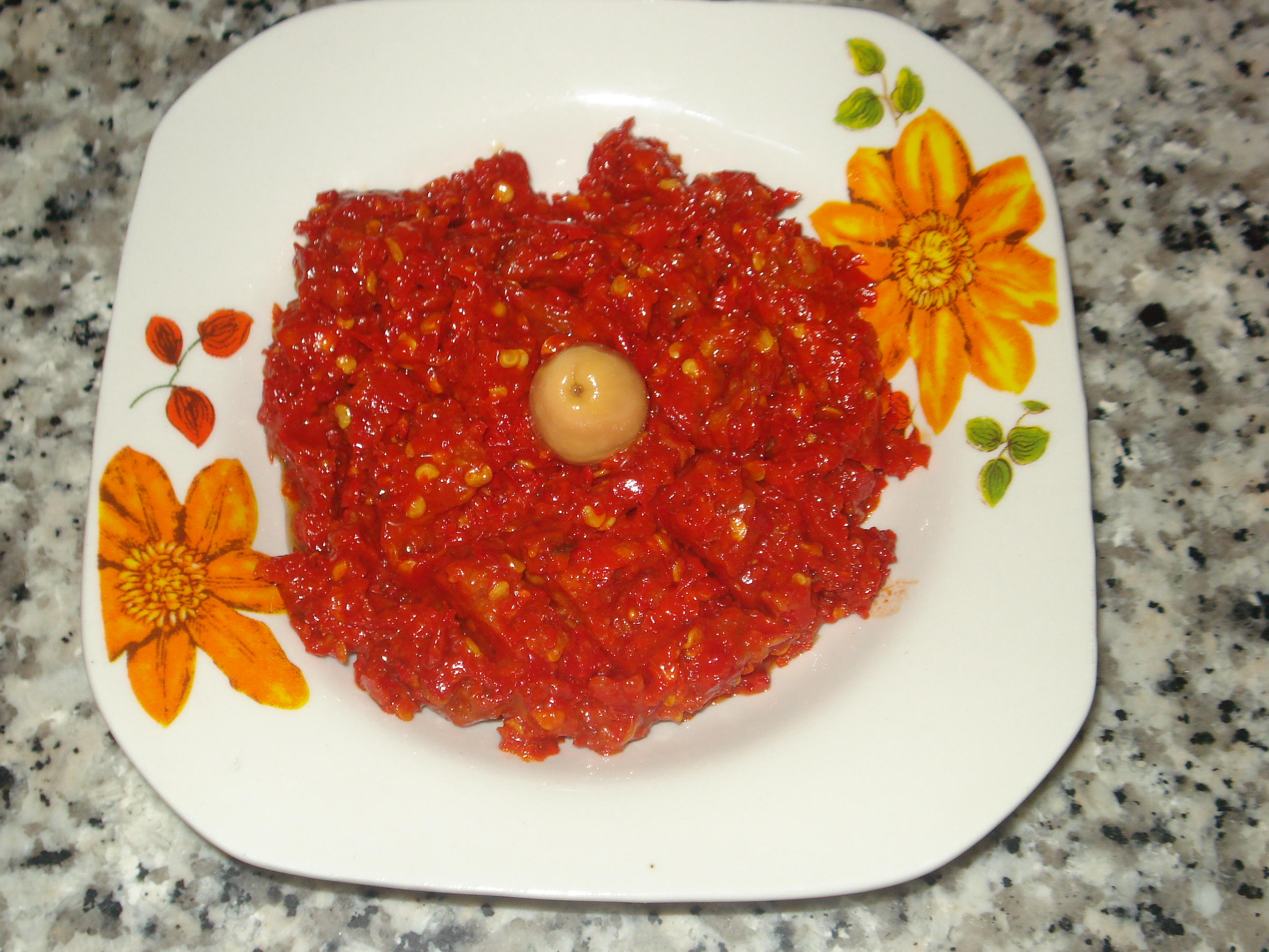 This is an image of food from Tunisia